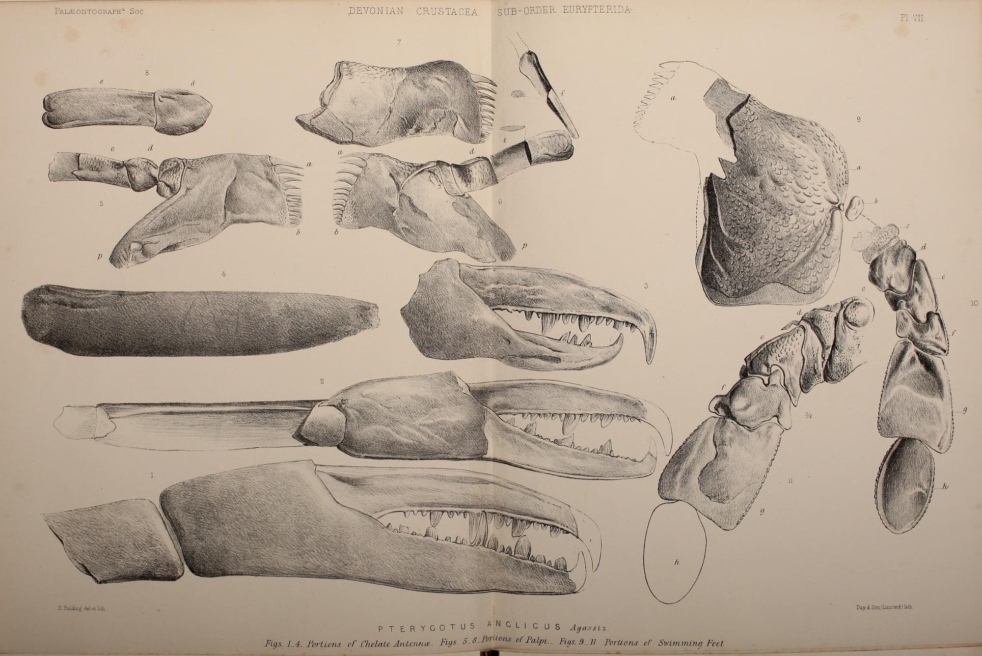 Pal/eoiitograph' Soc .DEVONIAN CRUSTACEA SUB- ORDER EURYPTERIDA. P. 711 10 iding dfilct uil; Day£ StJn.lLiinlljed) lJth PTERYGOTUS ANCLICUS Agasstx. Figs. J-4. fortions of Chelate Antenna . Figs. S.S.F^ons of Palpi._ Figs. 9-11 Tortious of Smmmina Feci